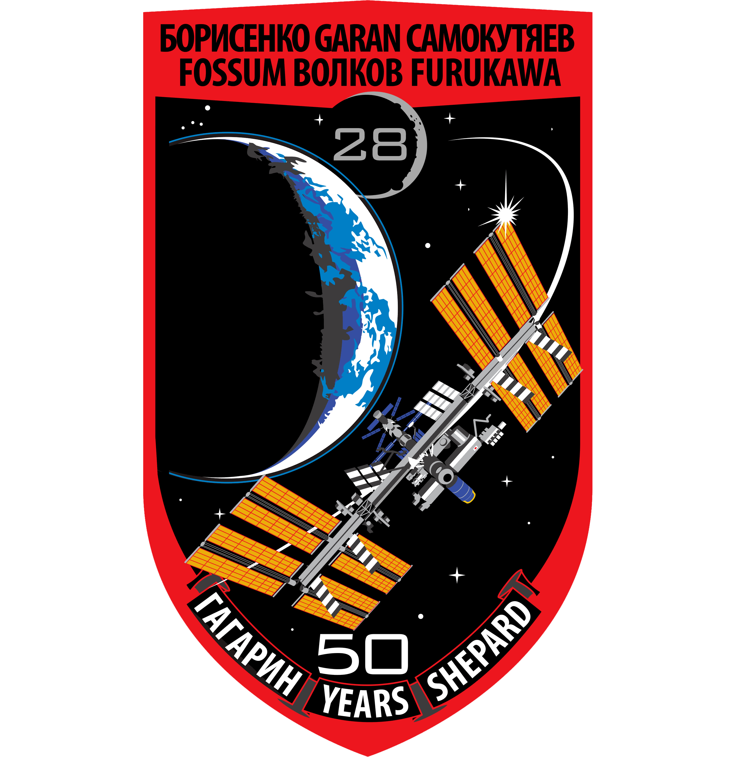 In the foreground of the Expedition 28 patch, the International Space Station is prominently displayed to acknowledge the efforts of the entire International Space Station (ISS) team – both the crews who have assembled and operated it, and the team of scientists, engineers, and support personnel on Earth who have provided a foundation for each successful mission. Their efforts and accomplishments have demonstrated the Space Station's capabilities as a technology test bed and a science laboratory, as well as a path to the human exploration of our solar system and beyond. This Expedition 28 patch represents the teamwork among the international partners – USA, Russia, Japan, Canada, and the ESA – and the ongoing commitment from each partner to build, improve, and utilize the ISS. Prominently displayed in the background is our home planet, Earth – the focus of much of our exploration and research on our outpost in space. Also prominently displayed in the background is the Moon. The Moon is included in the design to stress the importance of our planet's closest neighbor to the future of our world. Expedition 28 is scheduled to occur during the timeframe of the 50th anniversary of both the first human in space, Russian cosmonaut Yuri Gagarin and the first American in space, astronaut, Alan Shepard. To acknowledge the significant milestone of 50 years of human spaceflight, the names "Гагарин" and "Shepard" as well as "50 Years" are included in the patch design.